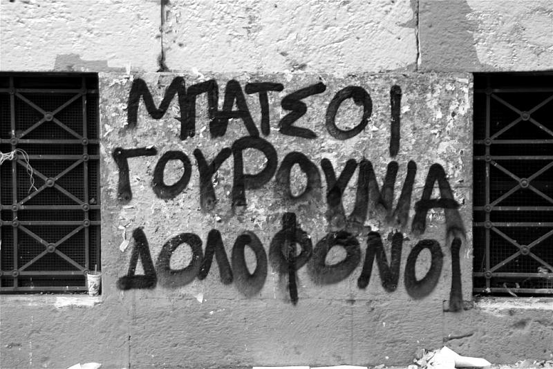 "Cops, pigs, murderers" reads angry graffiti painted by anarchist protesters during the riots.